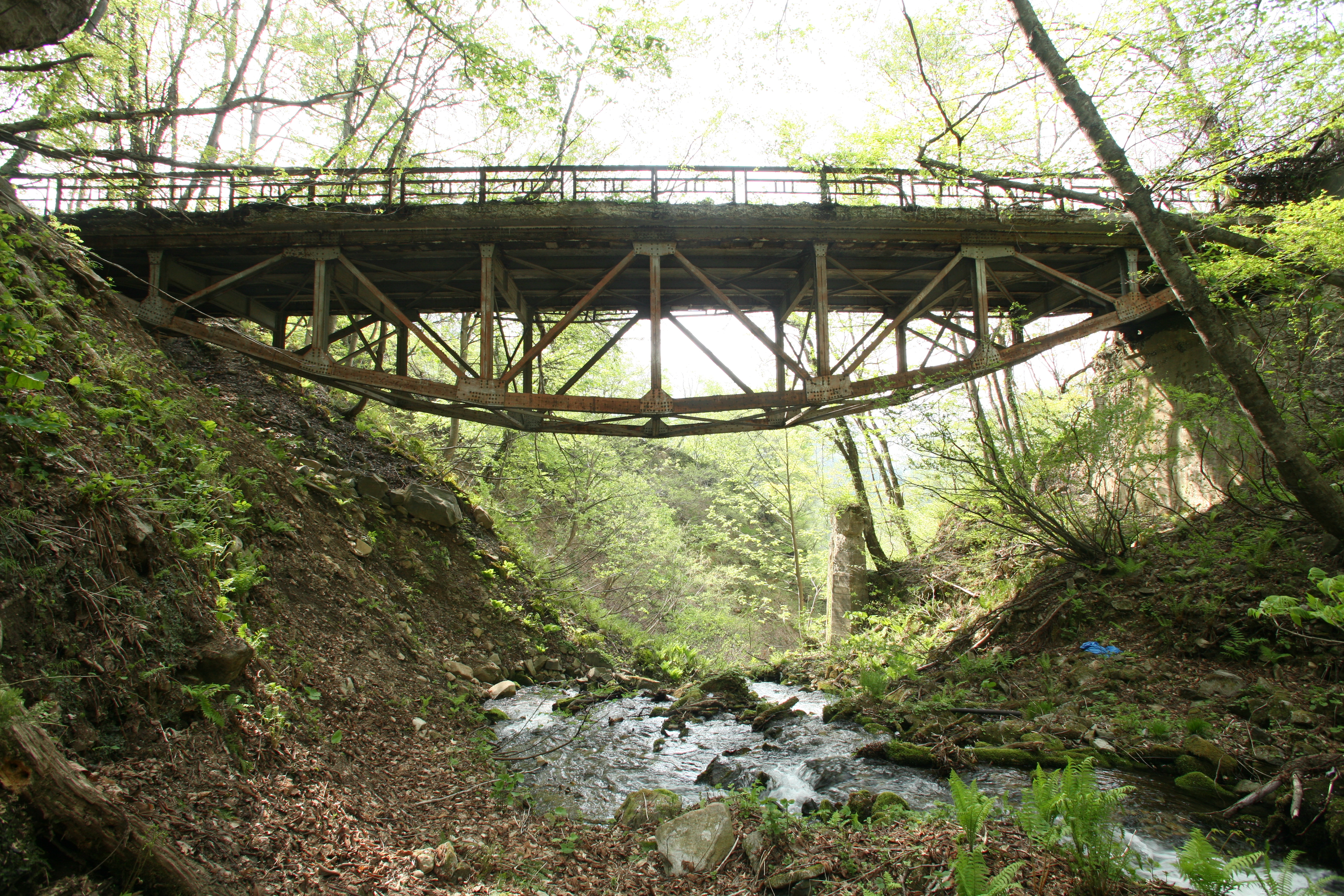 Bowstring truss bridge,named "Sakai Bashi",meaning the bridge over Sakai River,is obsolete bridge in Yuzawa Town,Niigata Pref.,Japan.This bridge was conpleted in 1952,but out of use in 1962.